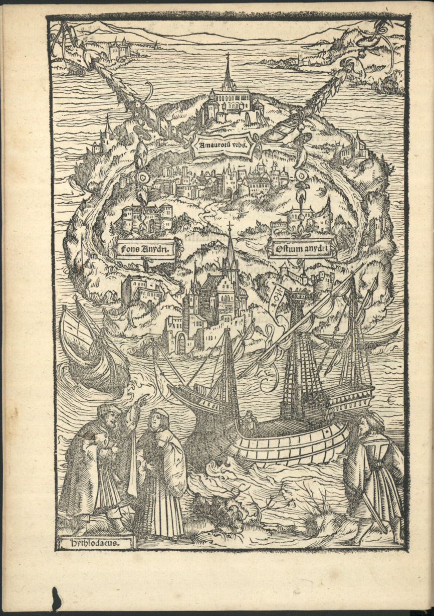 This is the woodcut by Ambrosius Holbein for Thomas More's Utopia (1518 november, Johann Froben). This copy of the book comes from Biblioteca nacional de Portugal